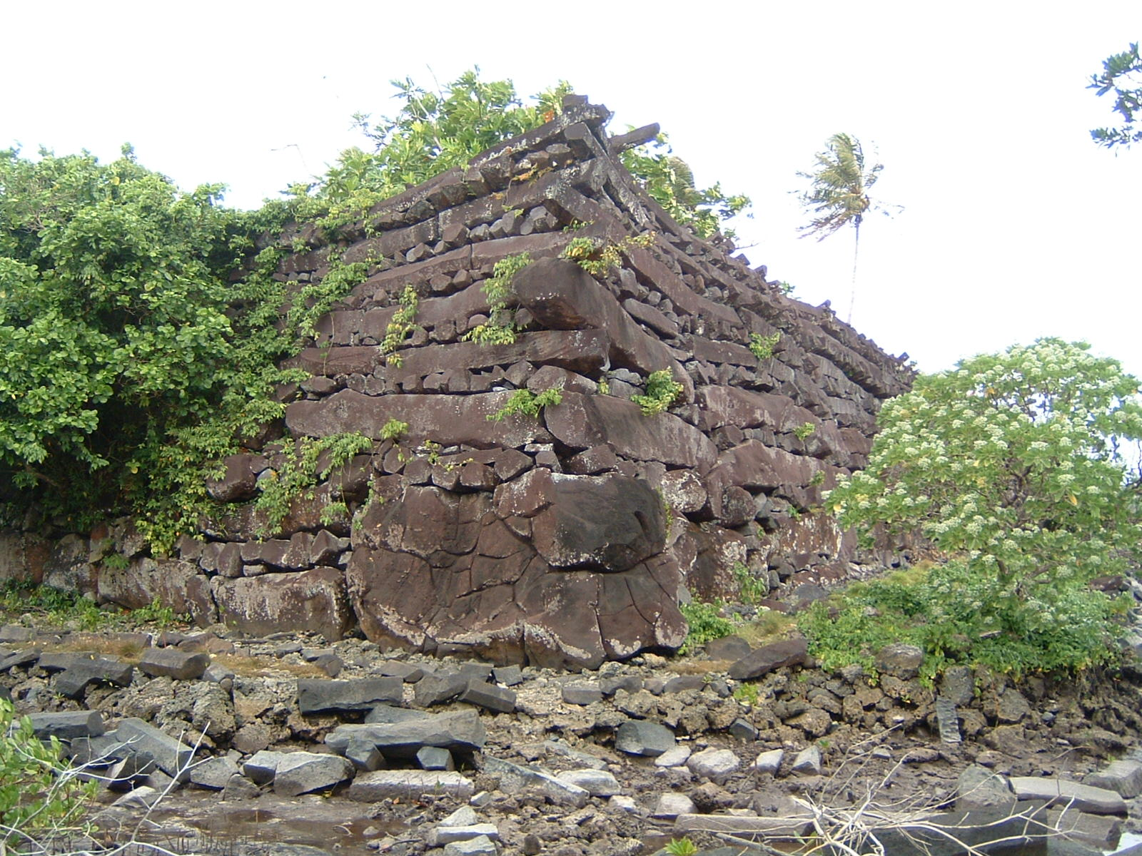 Pohnpei walls